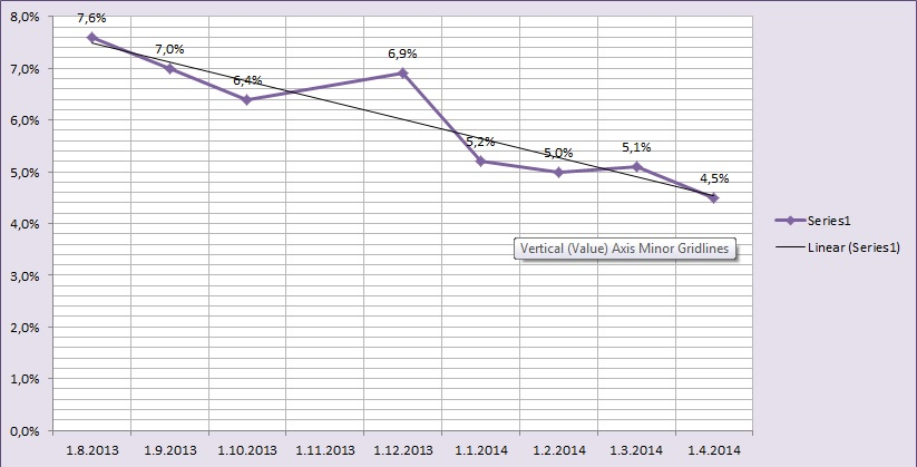 Graphics of poll results for the Reformist Bloc in Bulgaria (2013/2014)